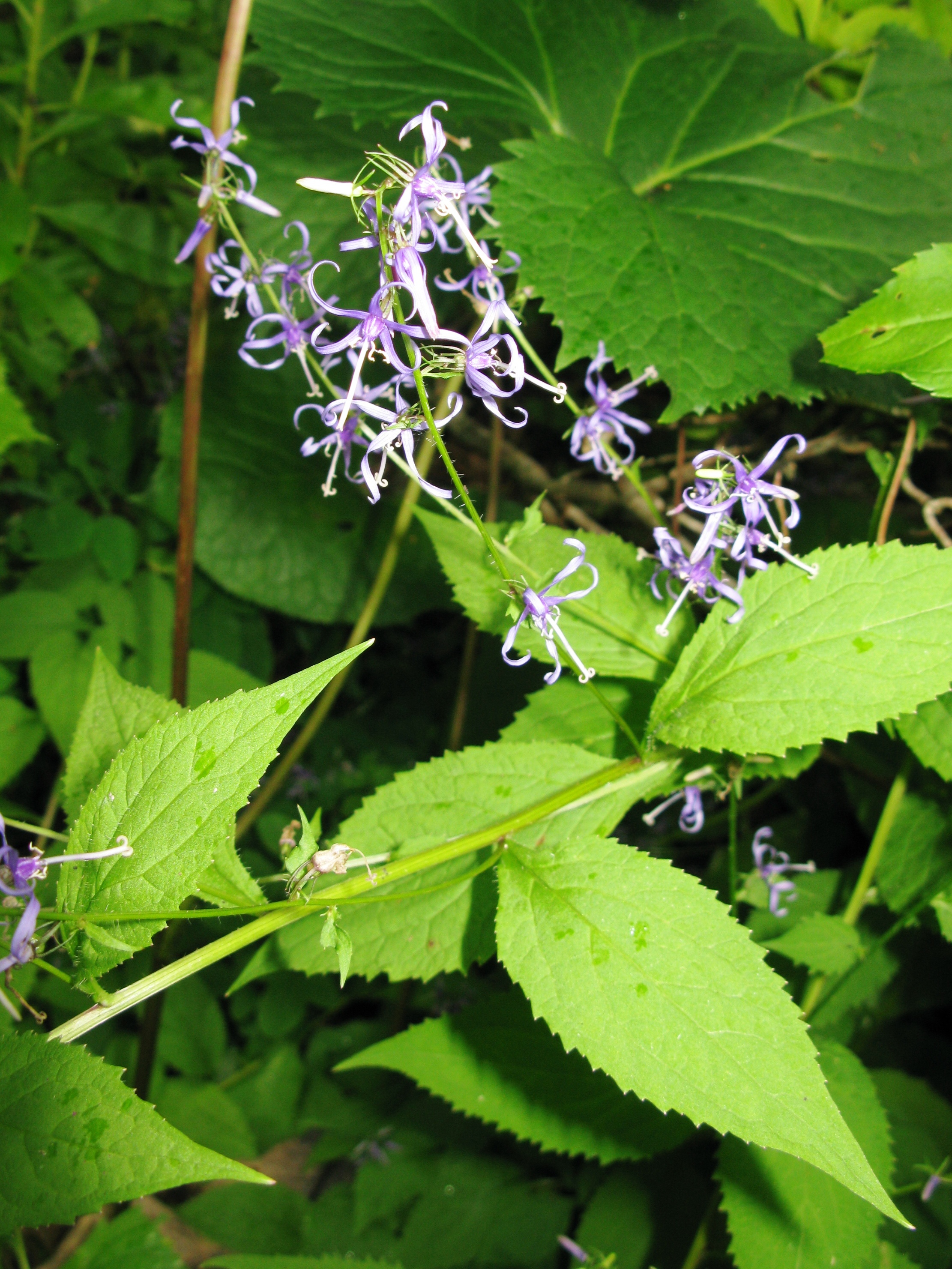 Asyneuma japonicum, Aizu area, Fukushima pref., Japan